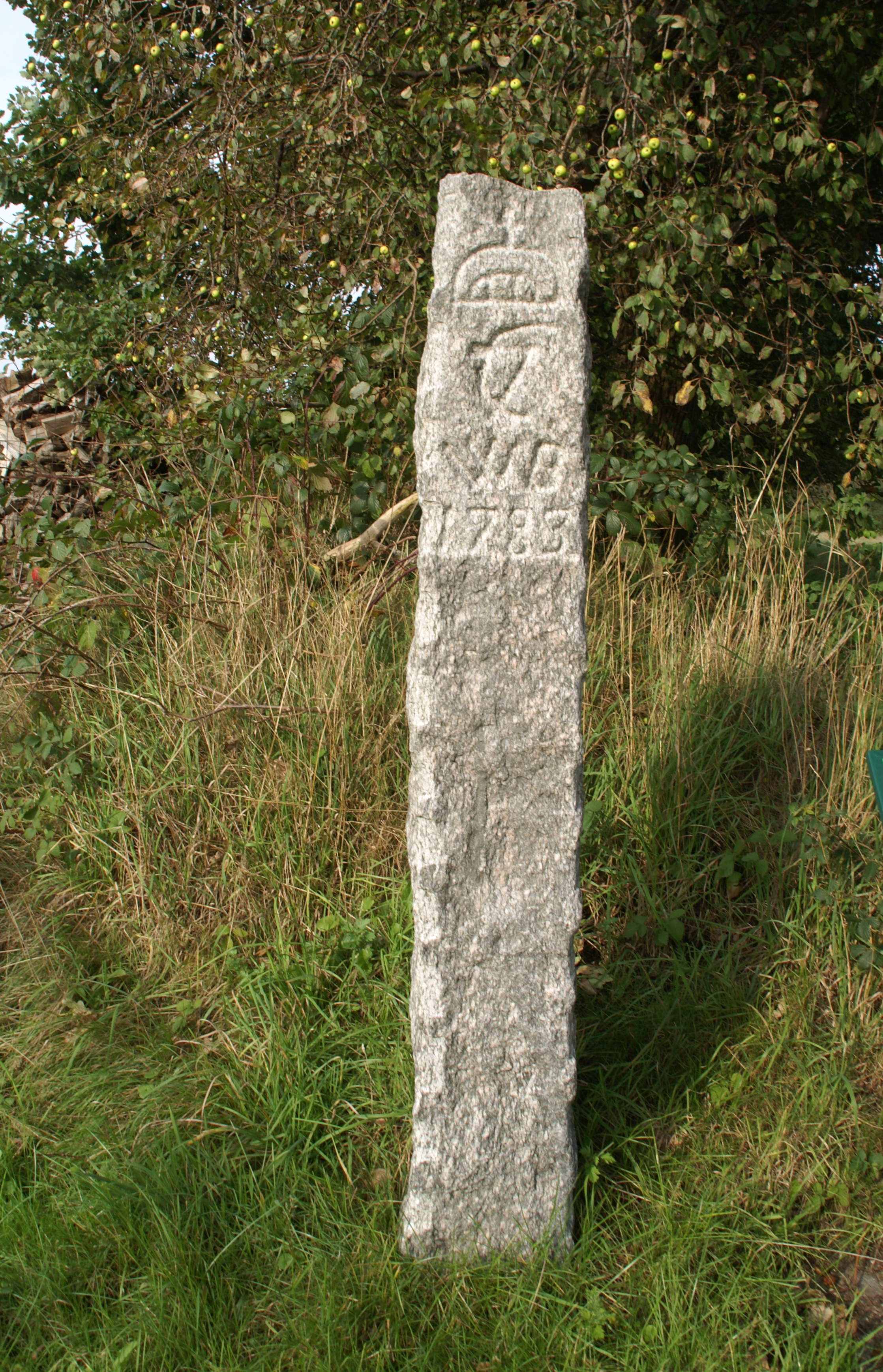 Rupel (Jörl) (Germany): Explanation about the "Jagdstein"